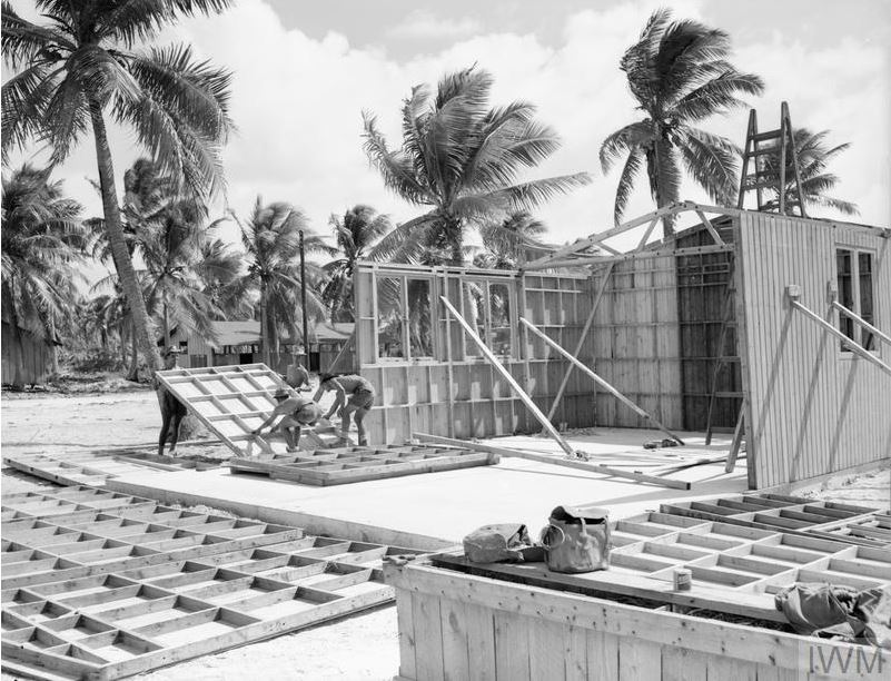 Royal Engineers assemble huts during construction of the British military base which provided the headquarters of the nuclear test programme on Christmas Island